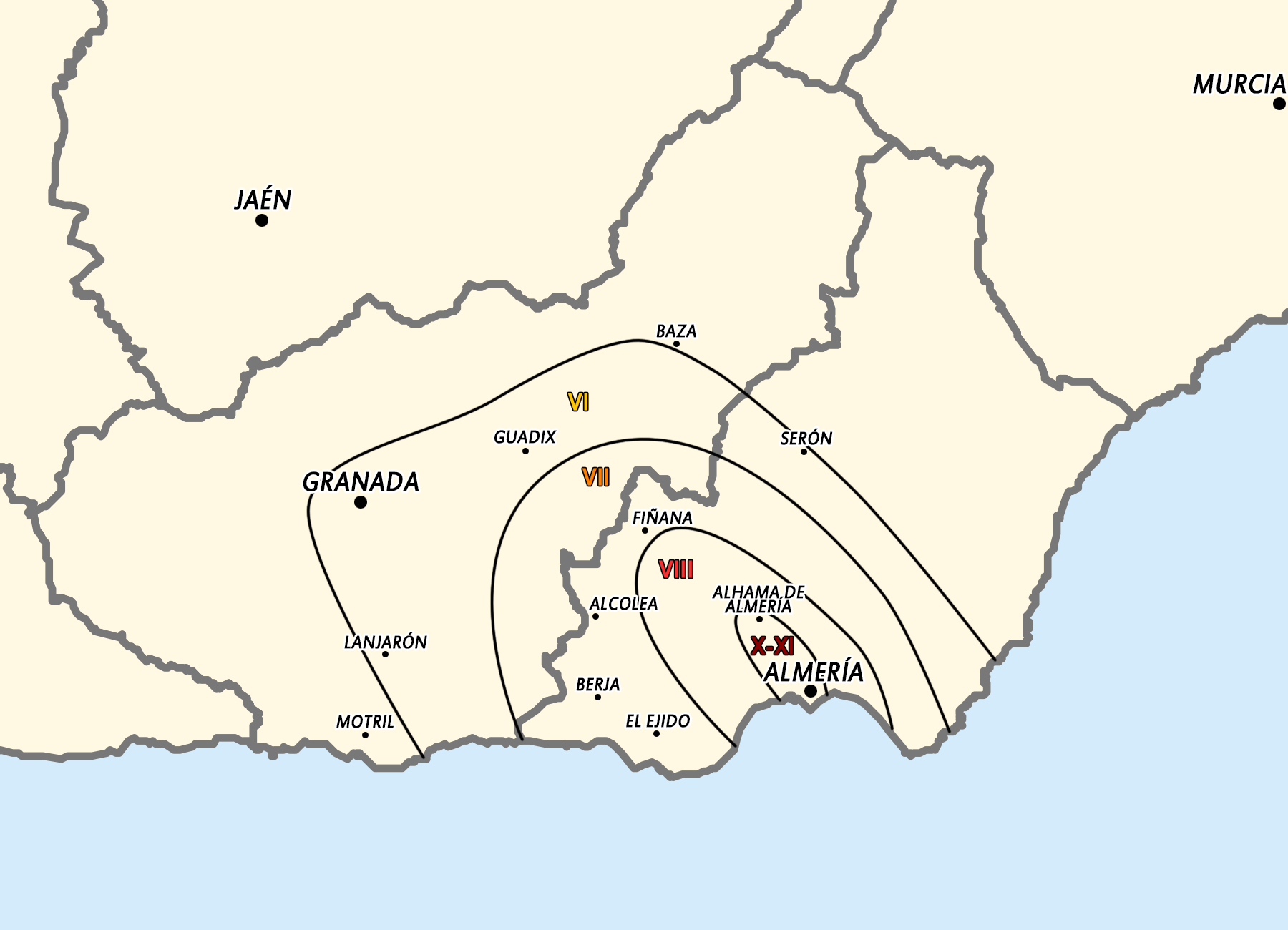 Intensity Map of Almeria, Granada and surroundings in the Almeria Earthquake of 1522